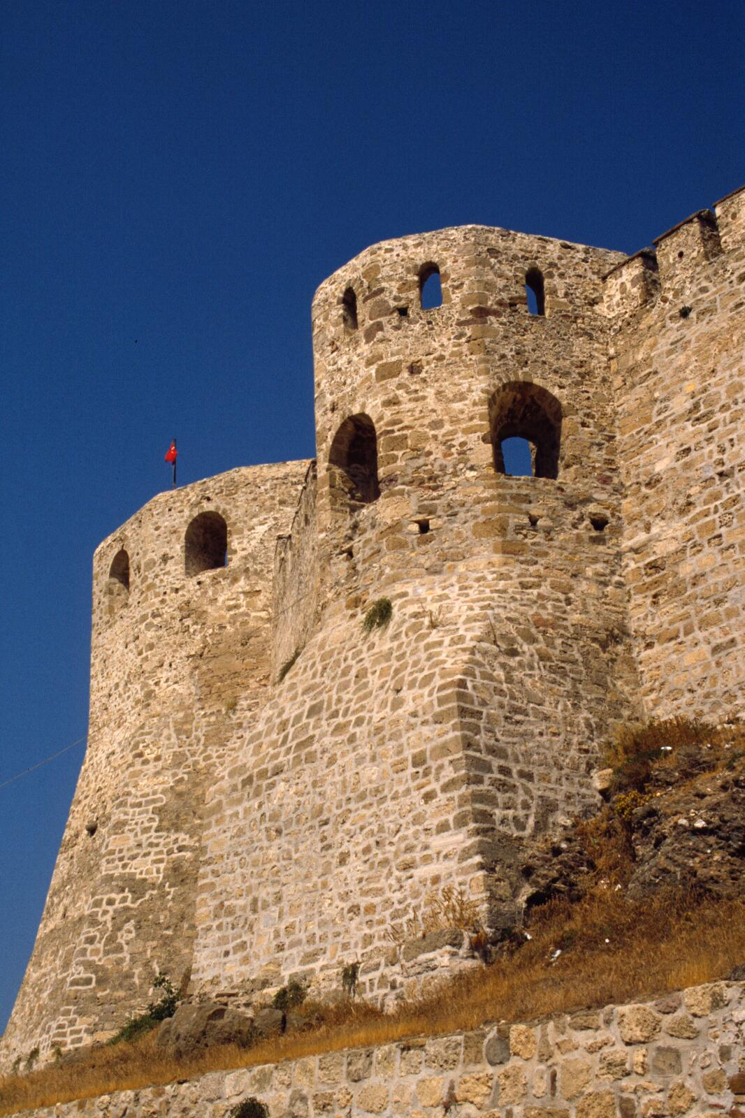 Bozcaada, Turkey. Scanned 35mm film